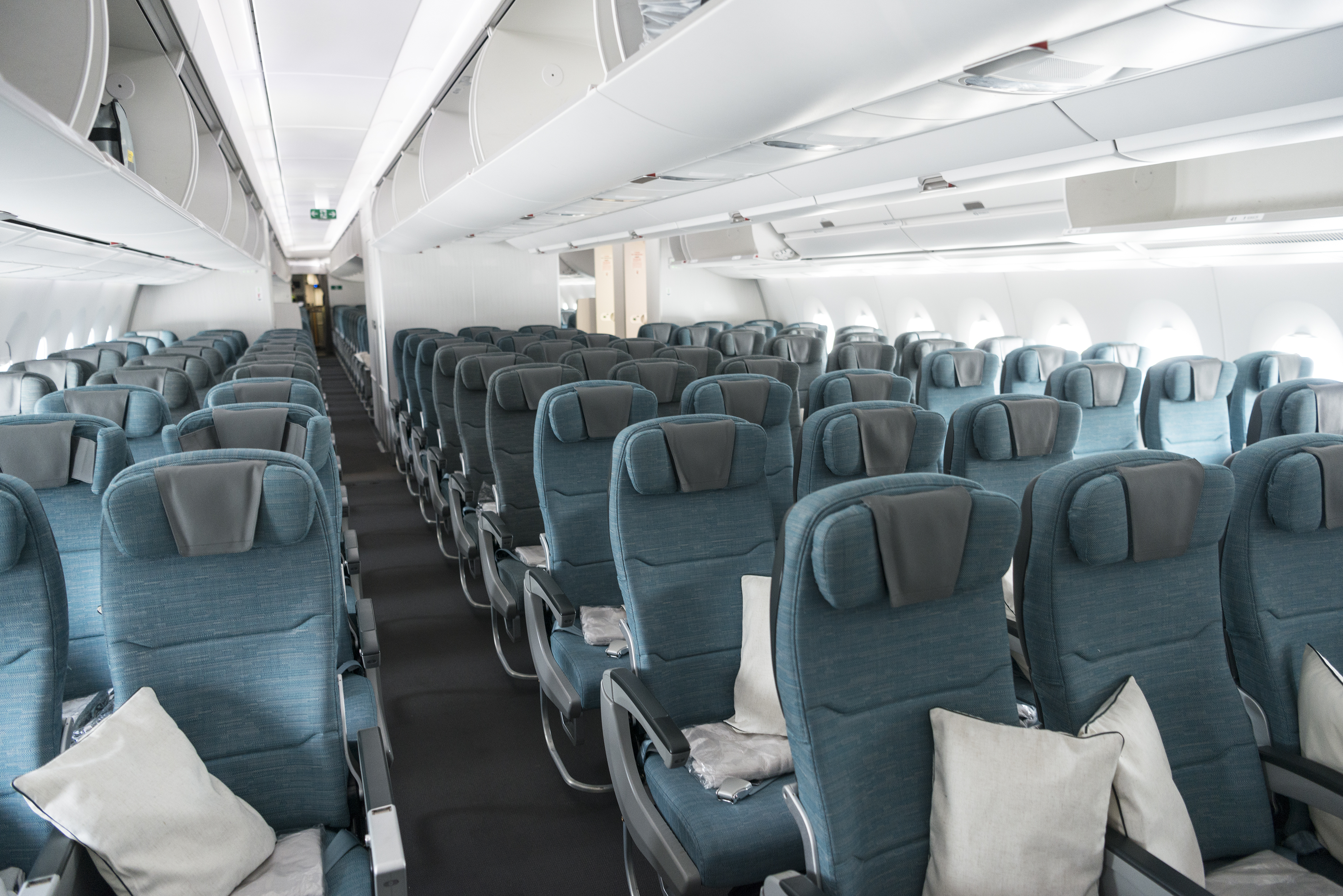 Cathay Pacific inaugural flight 25 March